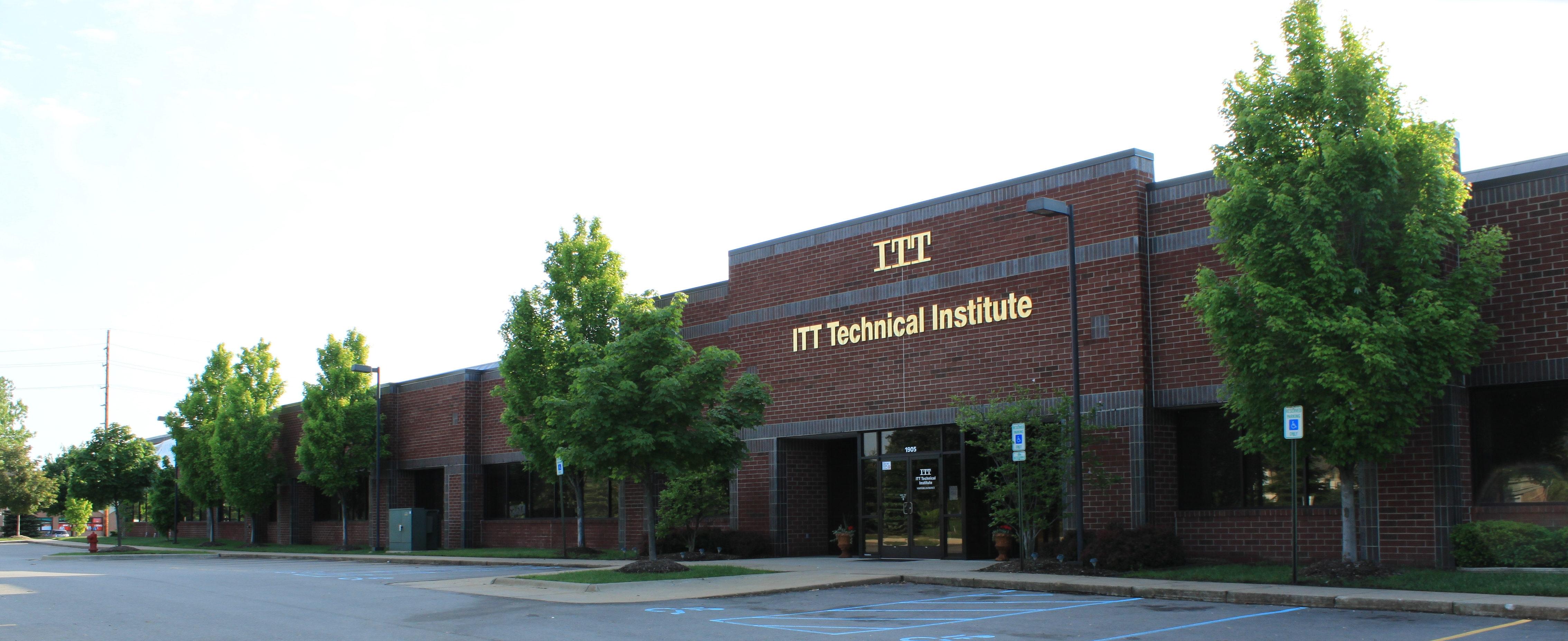 ITT Technical Institute Canton, Michigan campus, 1905 South Haggerty Road